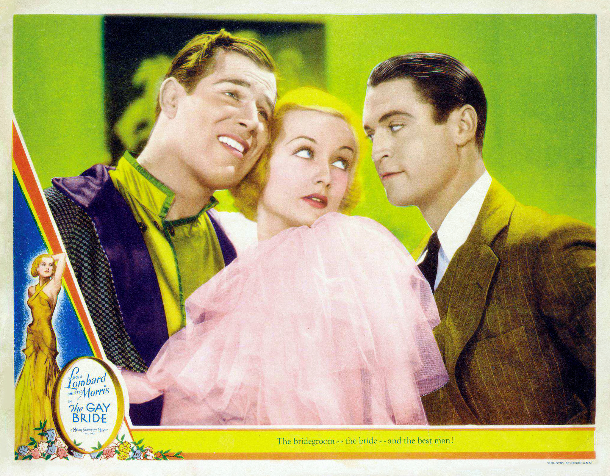 Lobby card for the 1934 film The Gay Bride. There are no copyright marks on the card. At bottom right is Country of origin USA.